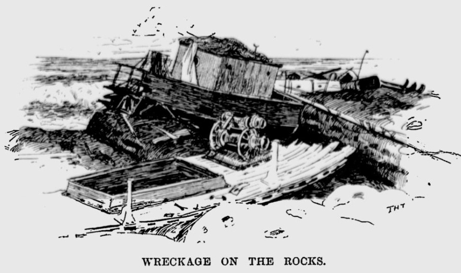 SS Koonya (1887) Sketch of the Wreckage